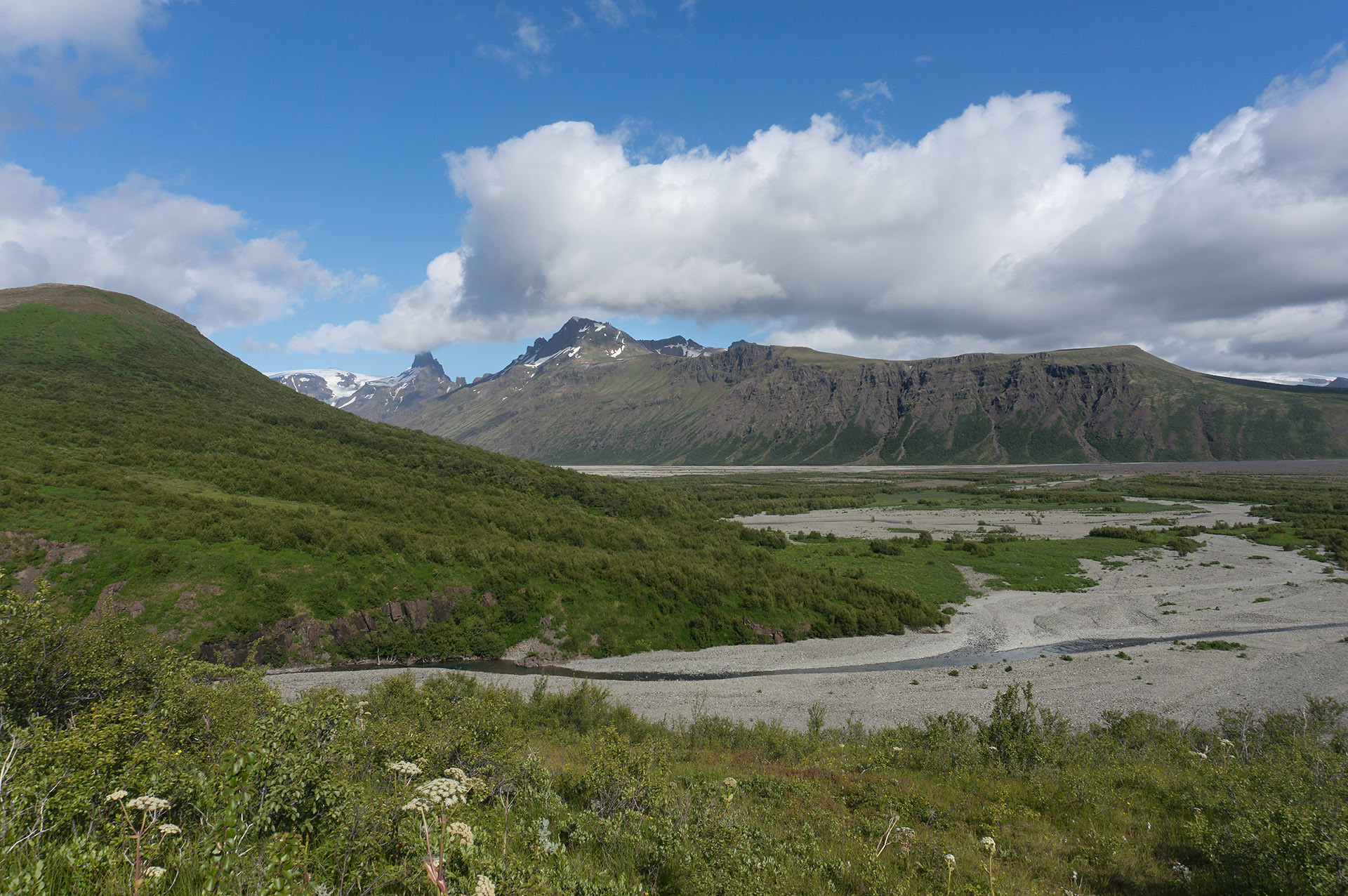 View from Vestragil to Morsadalur